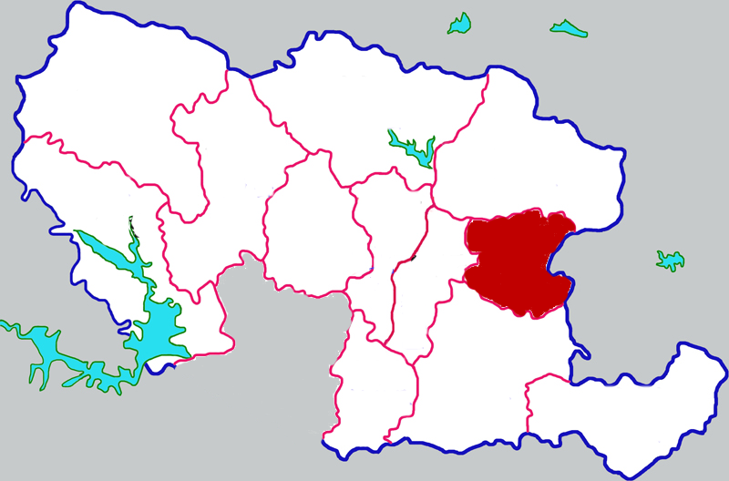 Location of Sheqi county in Nanyang city, China